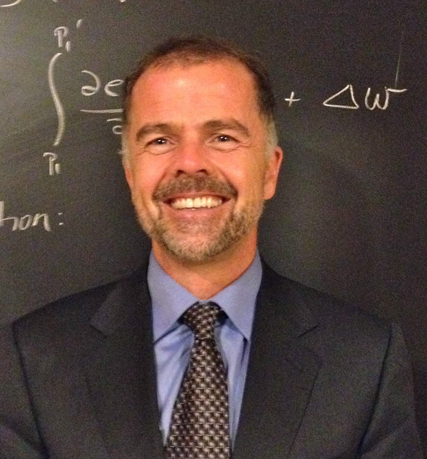 Dr. M. Scott Taylor head-shot.